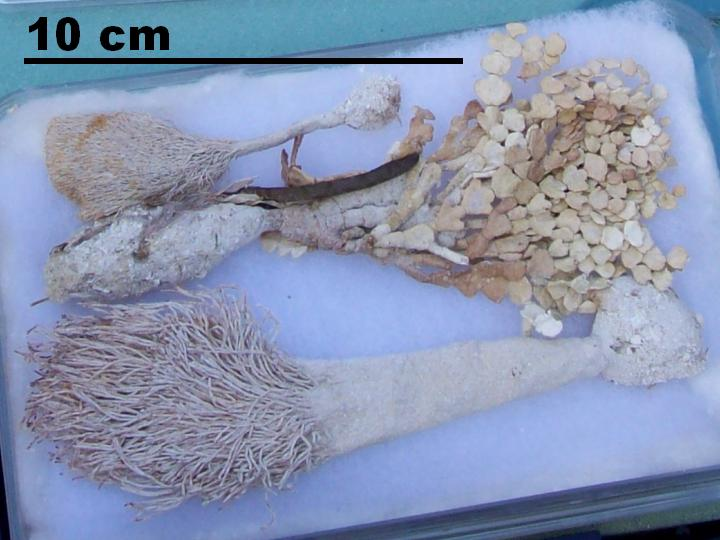 Calcified green algae belonging to the genera Halimeda and Penicillus. These algae are widely present at tropical to temperate latitudes in carbonate platform facies, and give a considerable contribution to the carbonatic buildups.